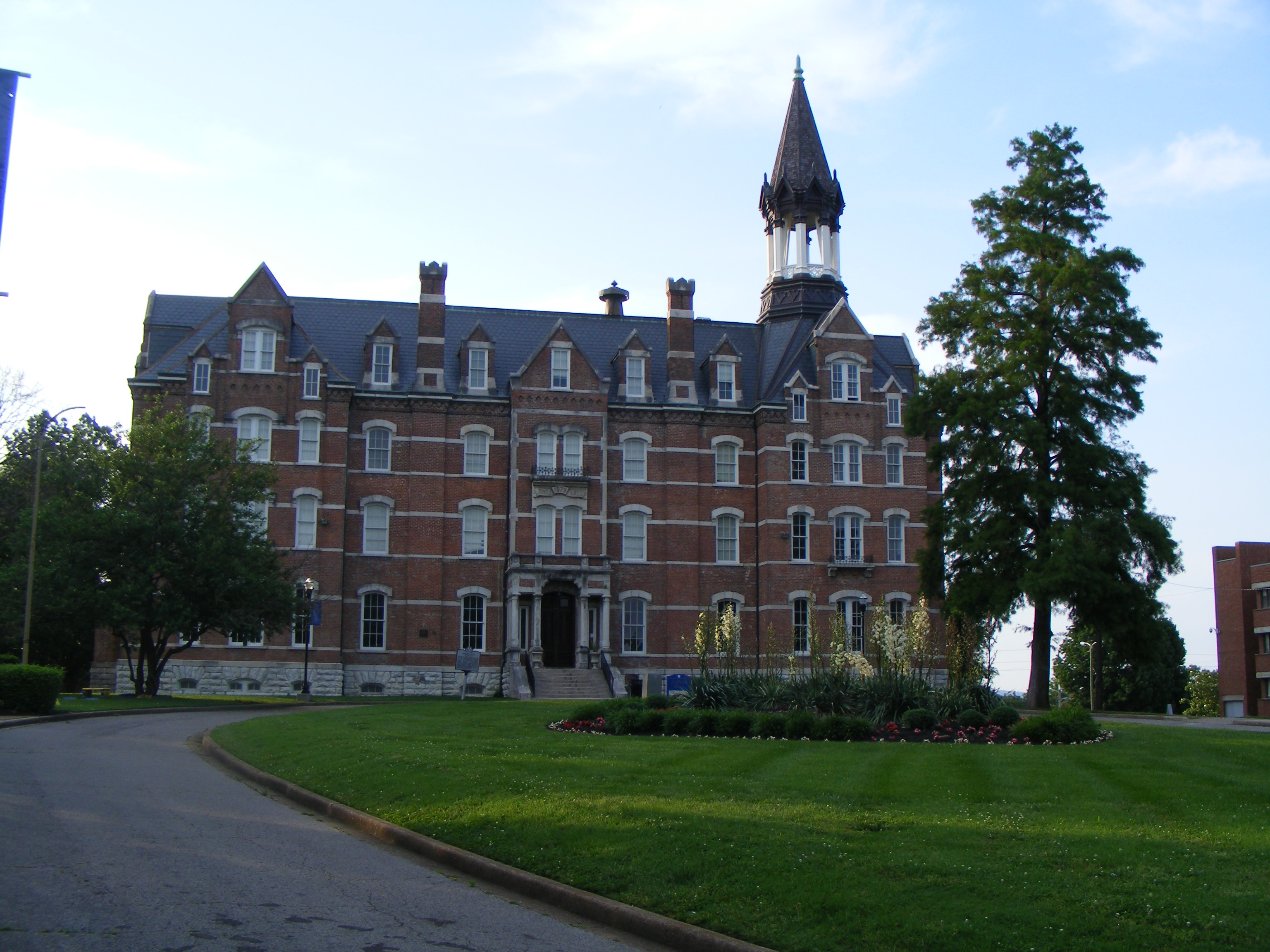 Fisk University in Nashville, Tennessee.